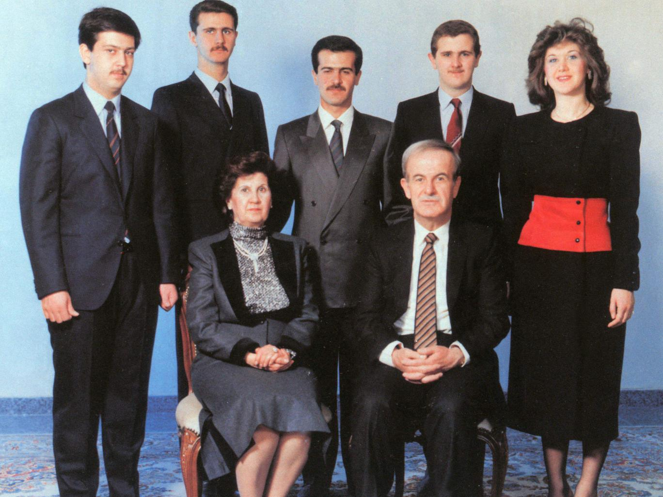 The Assad family. Hafez al-Assad and his wife, Mrs Anisa Makhlouf. On the back row, from left to right: Maher, Bashar, Basil, Majid, and Bushra al-Assad.